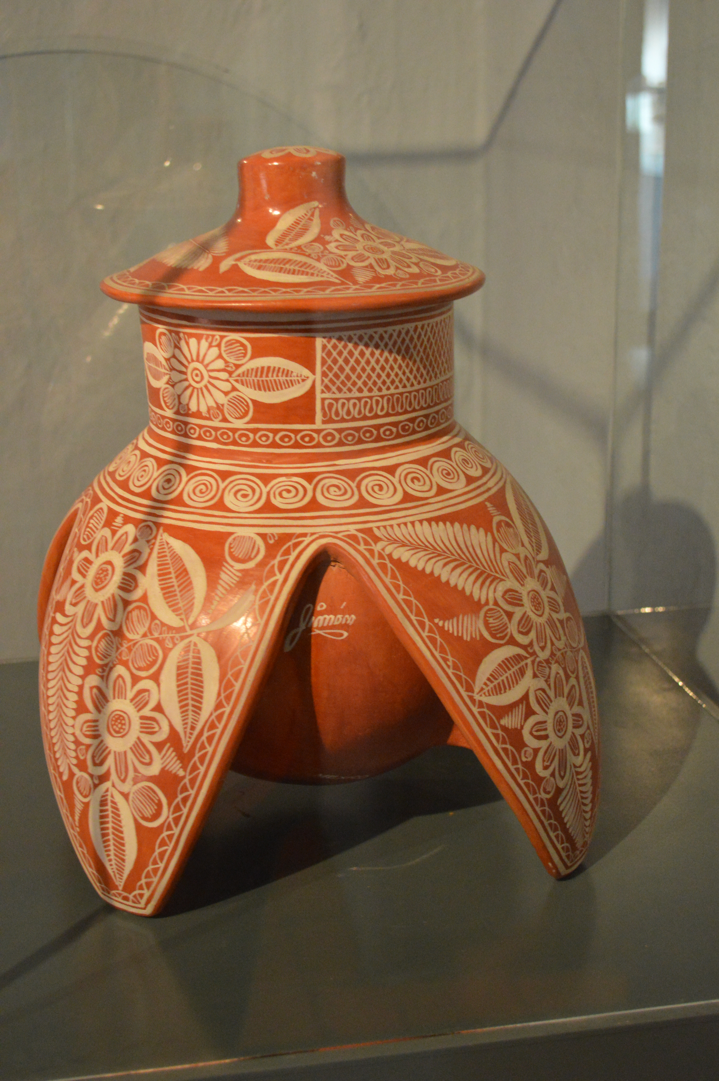 "Granada" by Florentino Jimon Barba at the Museo Nacional de la Ceramica in Tonala, Jalisco